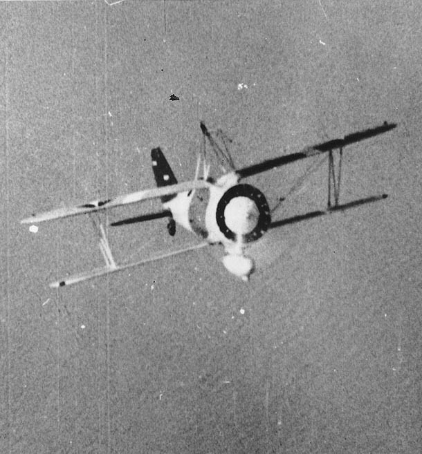 A Curtiss F9C-2 of USS Macon with its landing gear replaced bya a fuel tank - Photo # NH 84571 - F9C-2 Manuevers near USS Macon